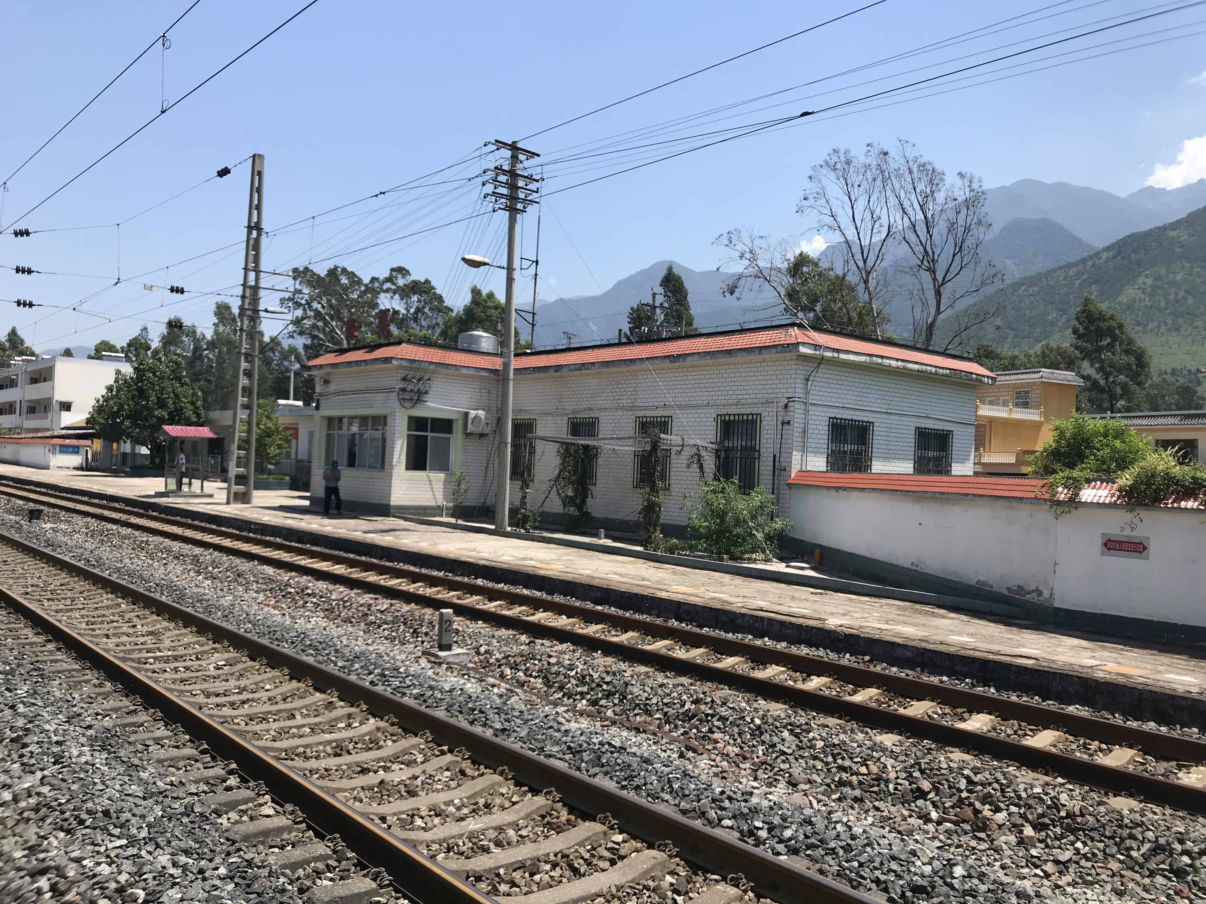 201908 Station Building of Mali